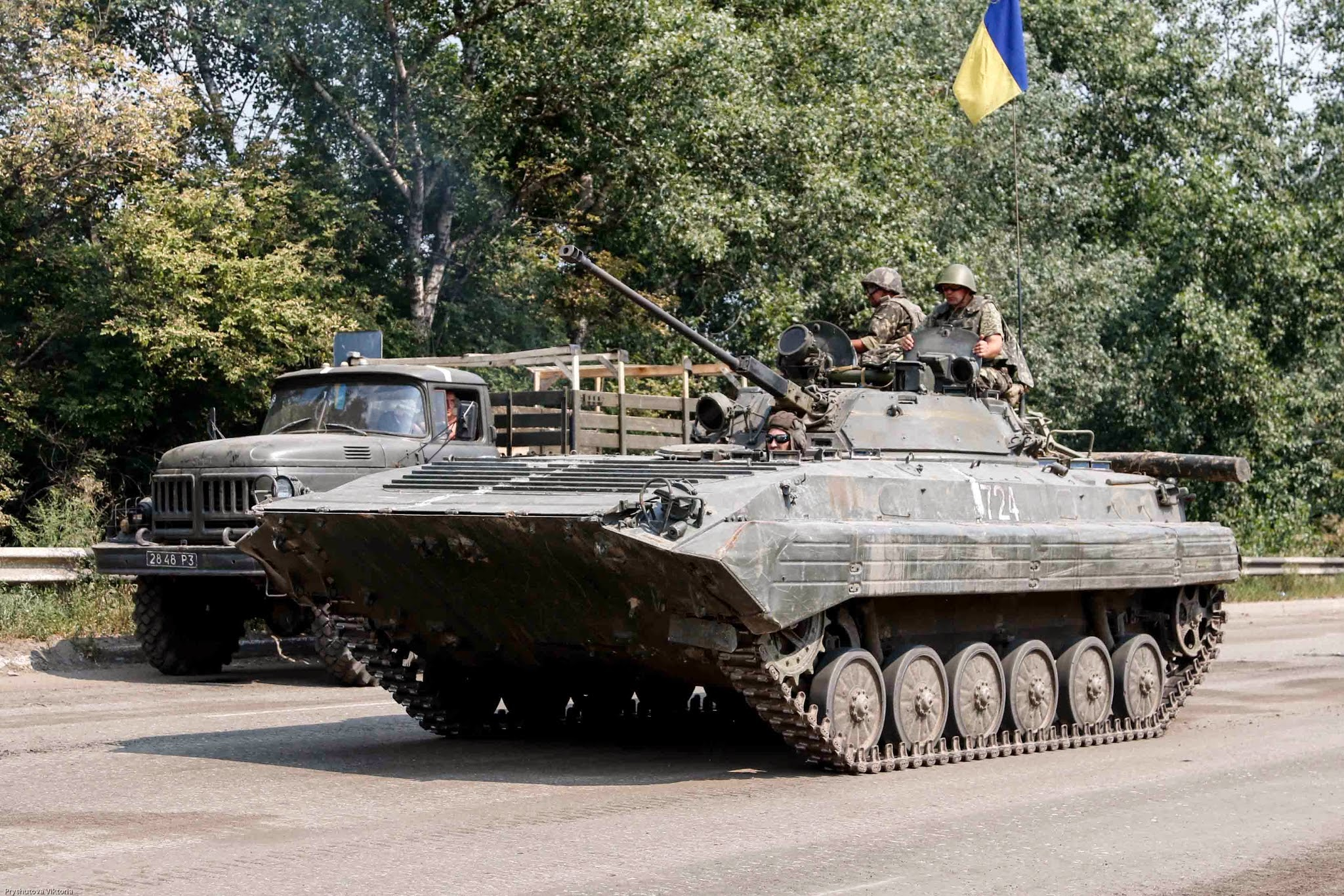 War in Donbass